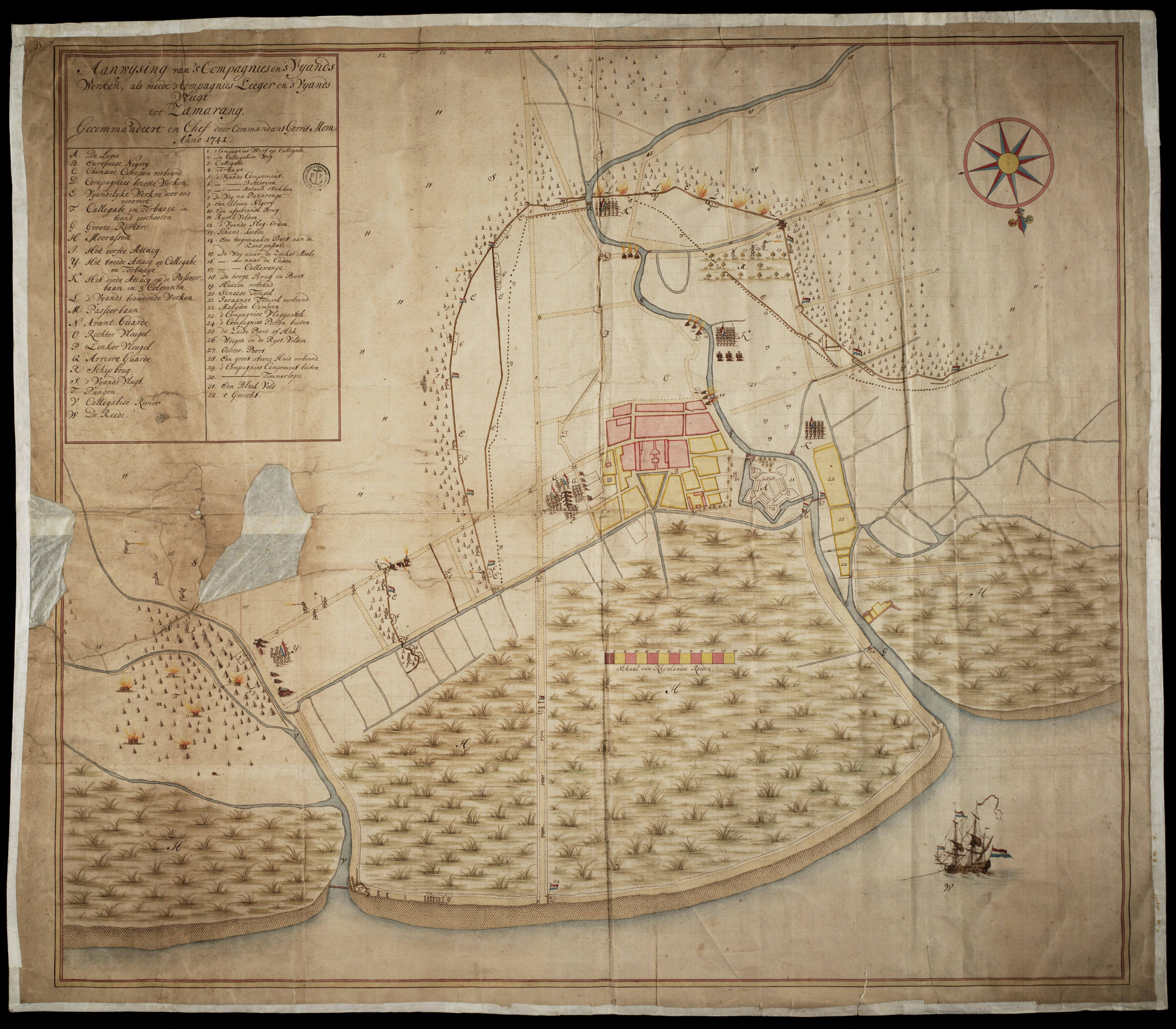 Semarang, 1741